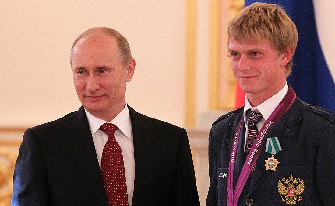 Presenting state decorations to London Paralympic Games champions and medallists. Order of Friendship presented to XIV Paralympic Games champion Alexander Kuligin.